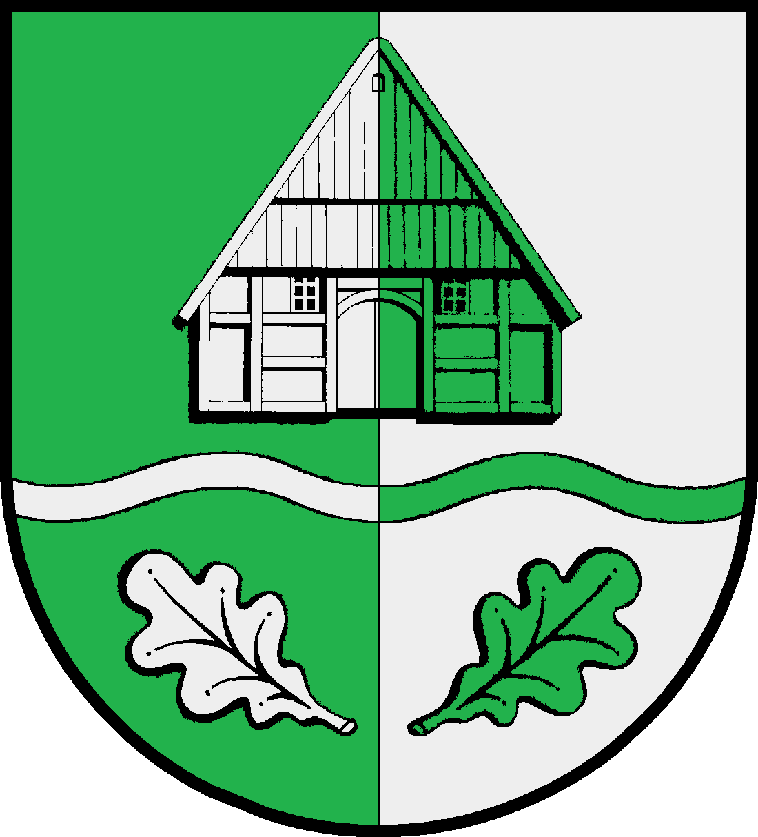 Coat of arms of the municipality Arpsdorf in Schleswig-Holstein, Germany.